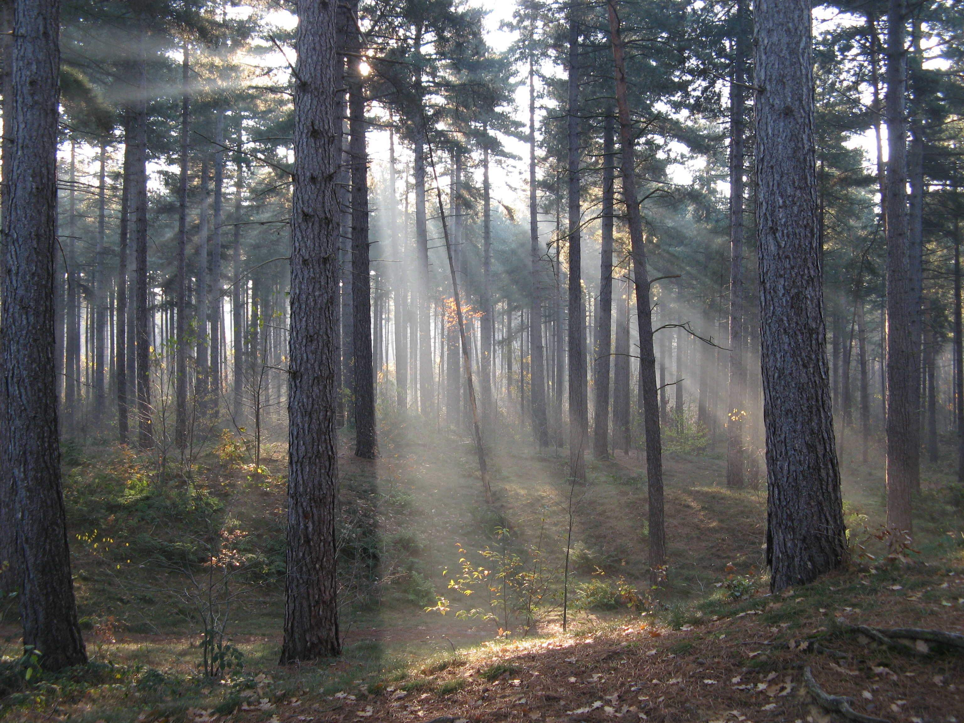 Crepuscular rays in a Pinus nigra plantation at Kasterlee, Belgium